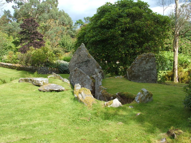 Chambered Cairn in Crarae Gardens This Neolithic cairn lies within the grounds of Crarae Gardens, and might seem a little incongruous with its present-day surroundings. The opening that is visible here is the burial chamber, measuring about 4m by 1.7m, but the mound of the cairn covers a larger area (it was originally over 120 feet long by 70 feet wide). It dates to about 2500BC. (at WoSAS) for further details.